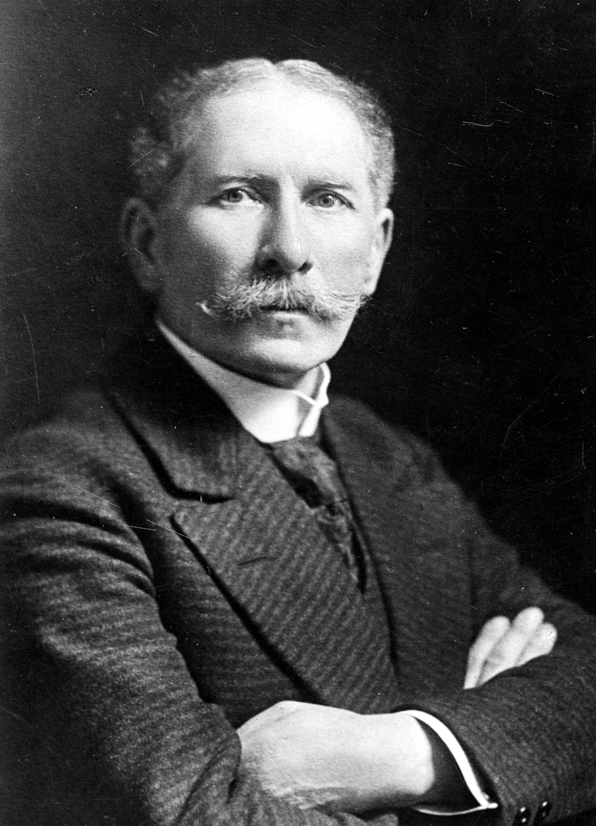 Stefan Łaszewski (1862-1924) Polish lawyer and politician. Member of the Reichstag (1911-1918), voivode of Pomerania 1920.